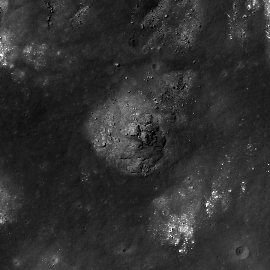 Gassendi A satellite crater